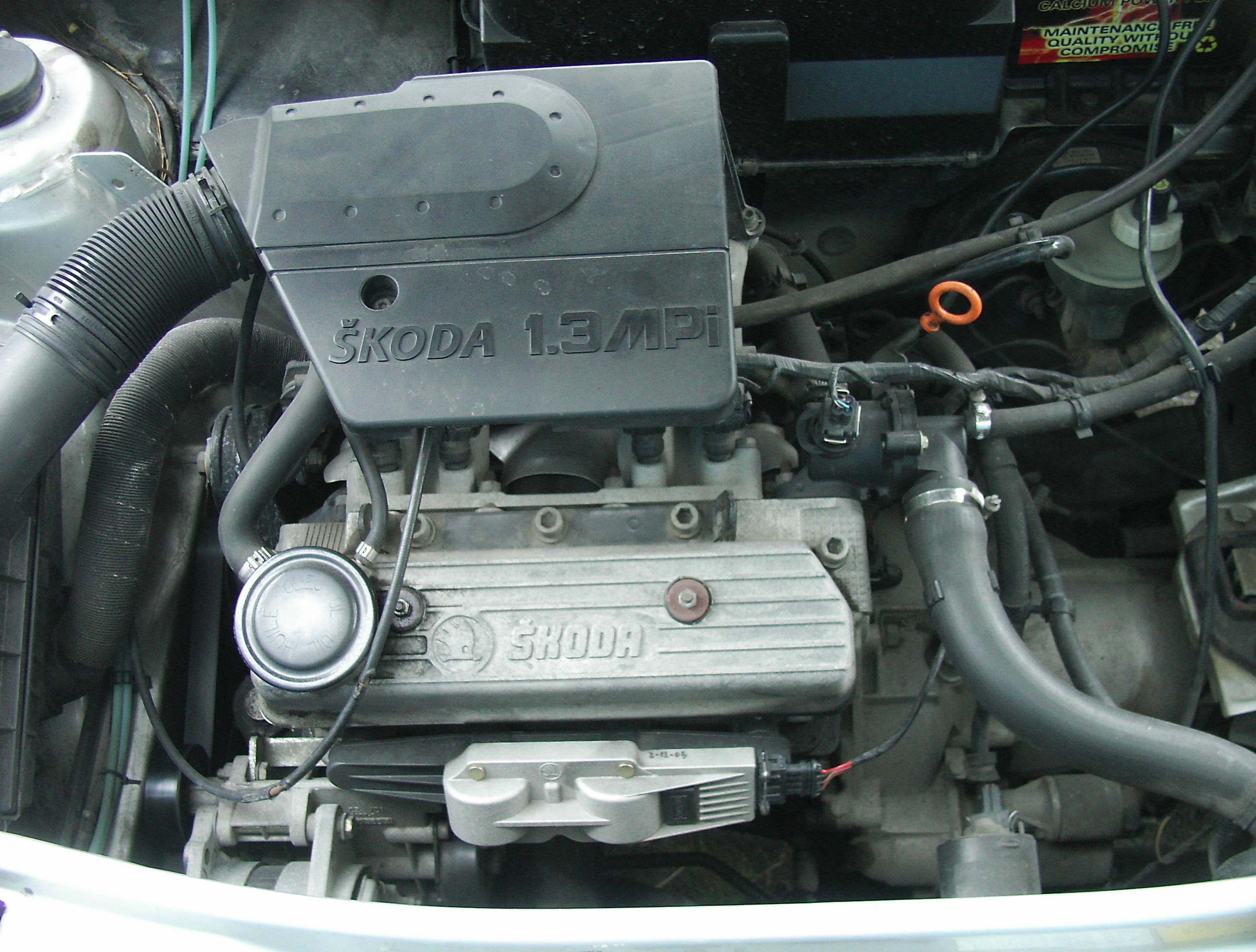 Created Using a Mustek MDC 6500z Camera. Thanks to Christian Mc Donnell.